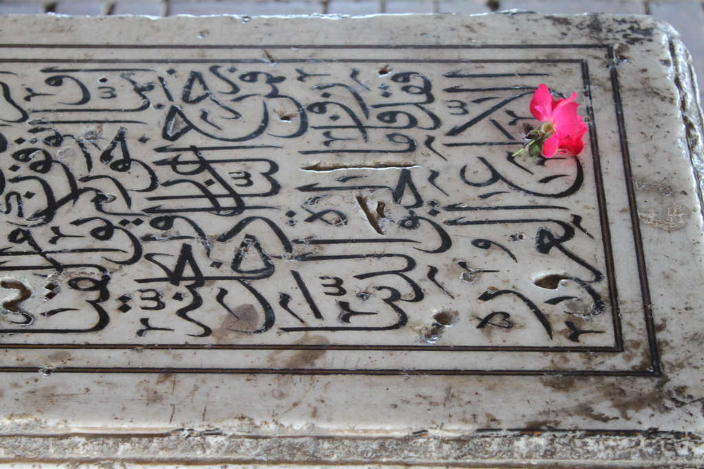 Tomb of Nur Jahan This is a photo of a monument in Pakistan identified as the PB-91